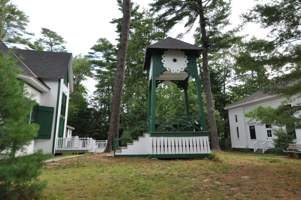 Ocean Park Historic Buildings, Ocean Park (Old Orchard Beach), Maine. This gazebo-like structure stands between the Temple and Jordan Hall.